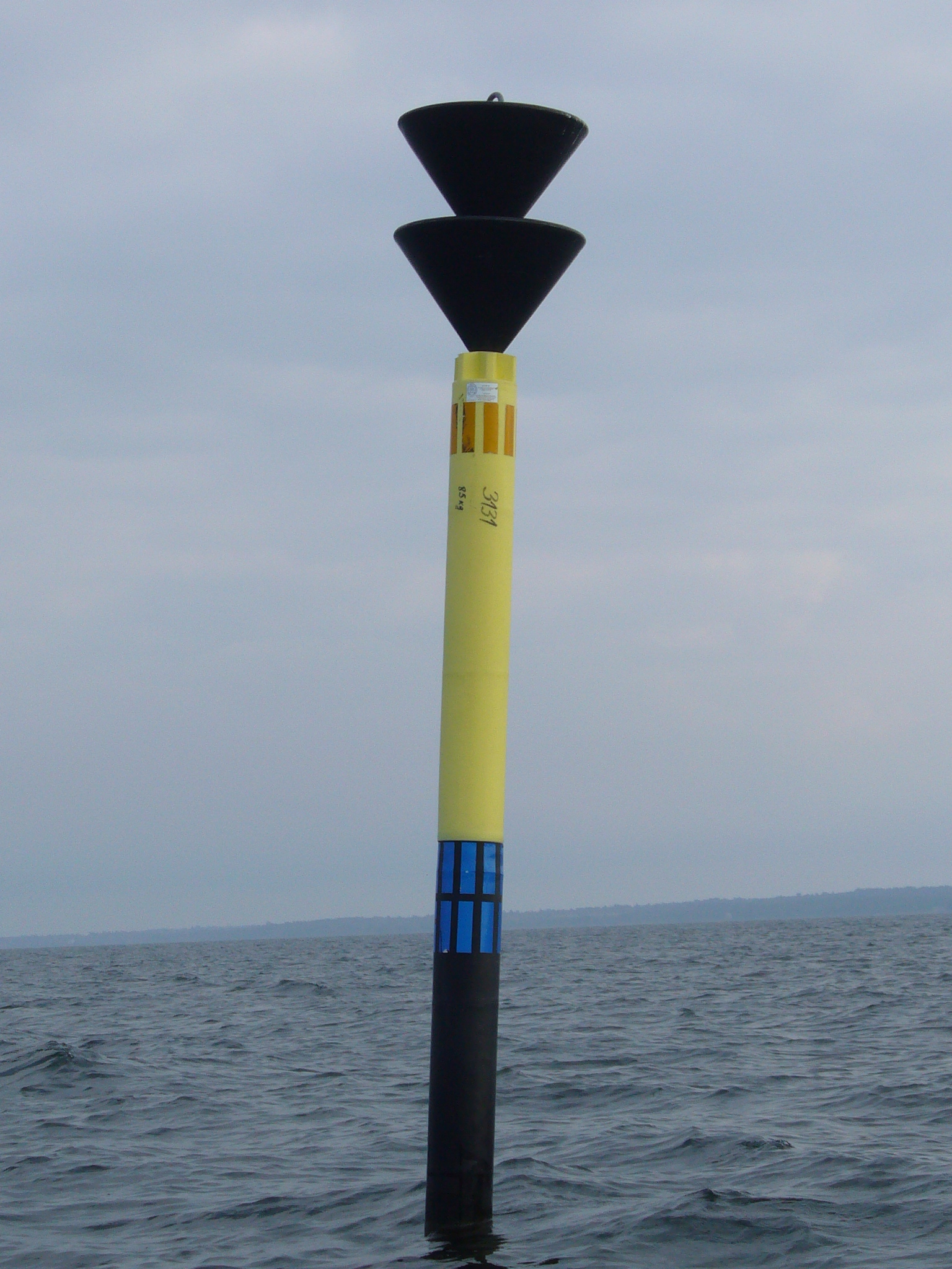 Viinakari south spar buoy (between Muhu and Ahelaid/Kõverlaid) in Moonsund, Estonia. View from north-west (where the shallow water is).